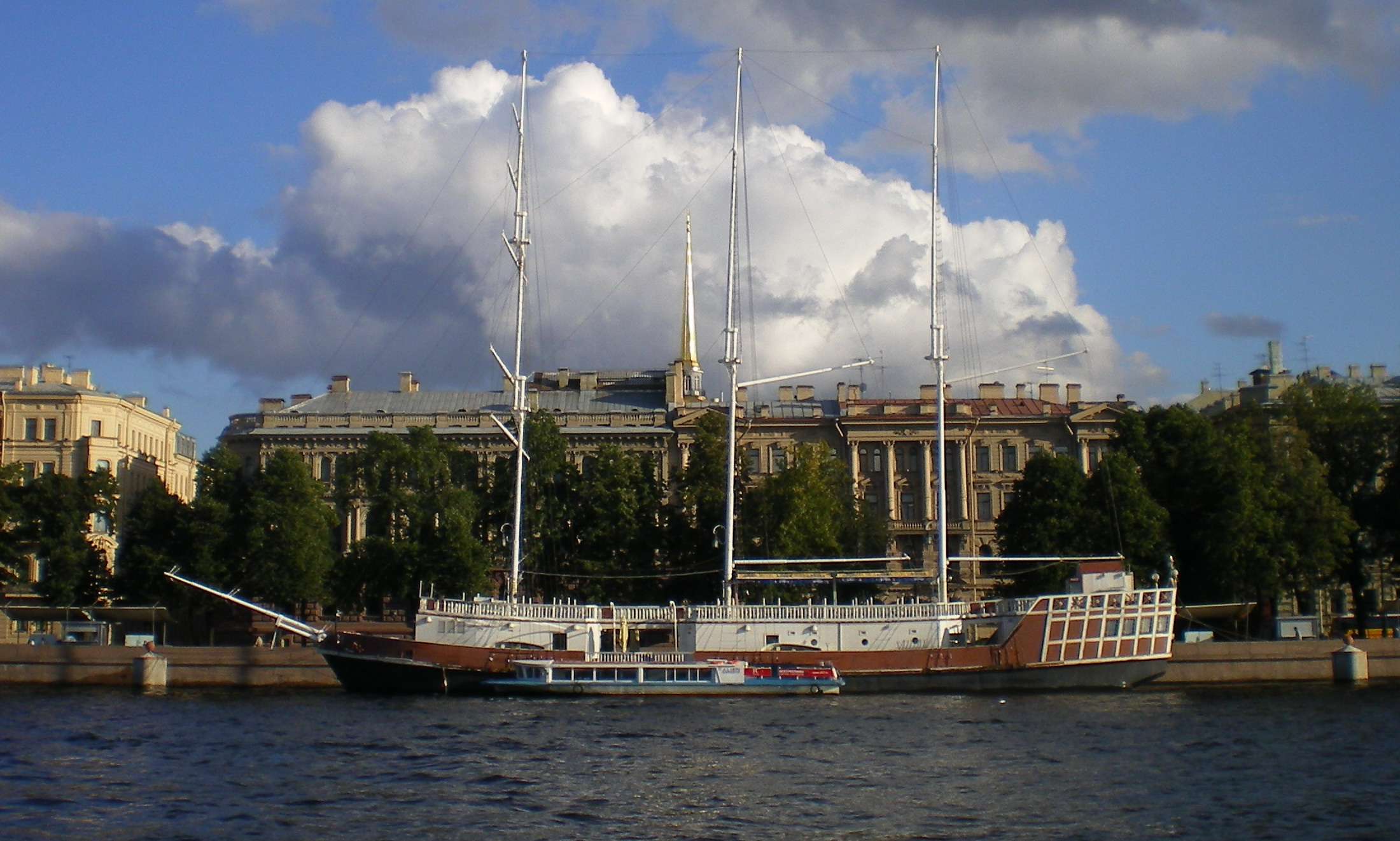 Admiralty Embakment